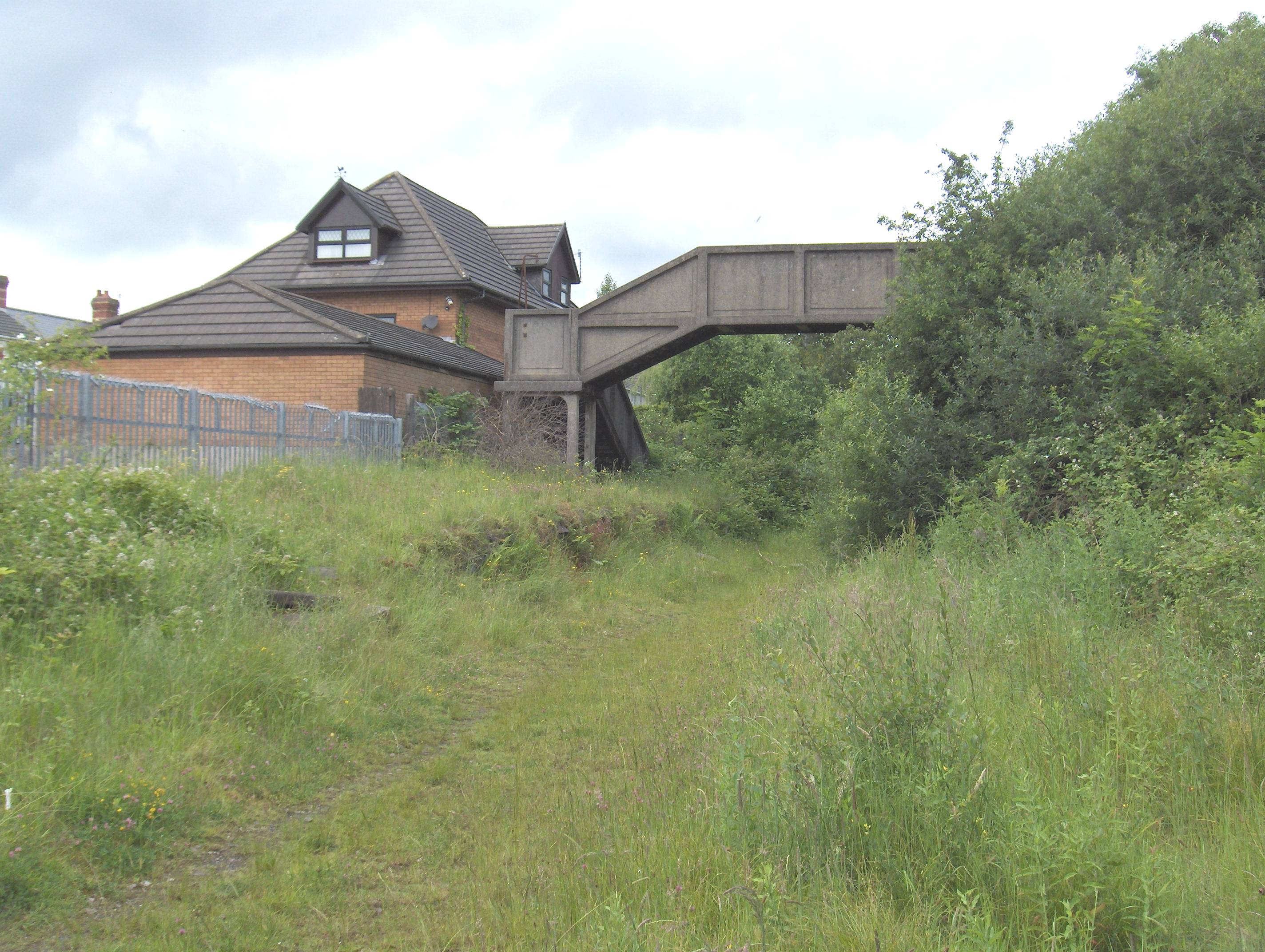 The bridge behind Somerfield that used to be part of the main train station in Maesteg